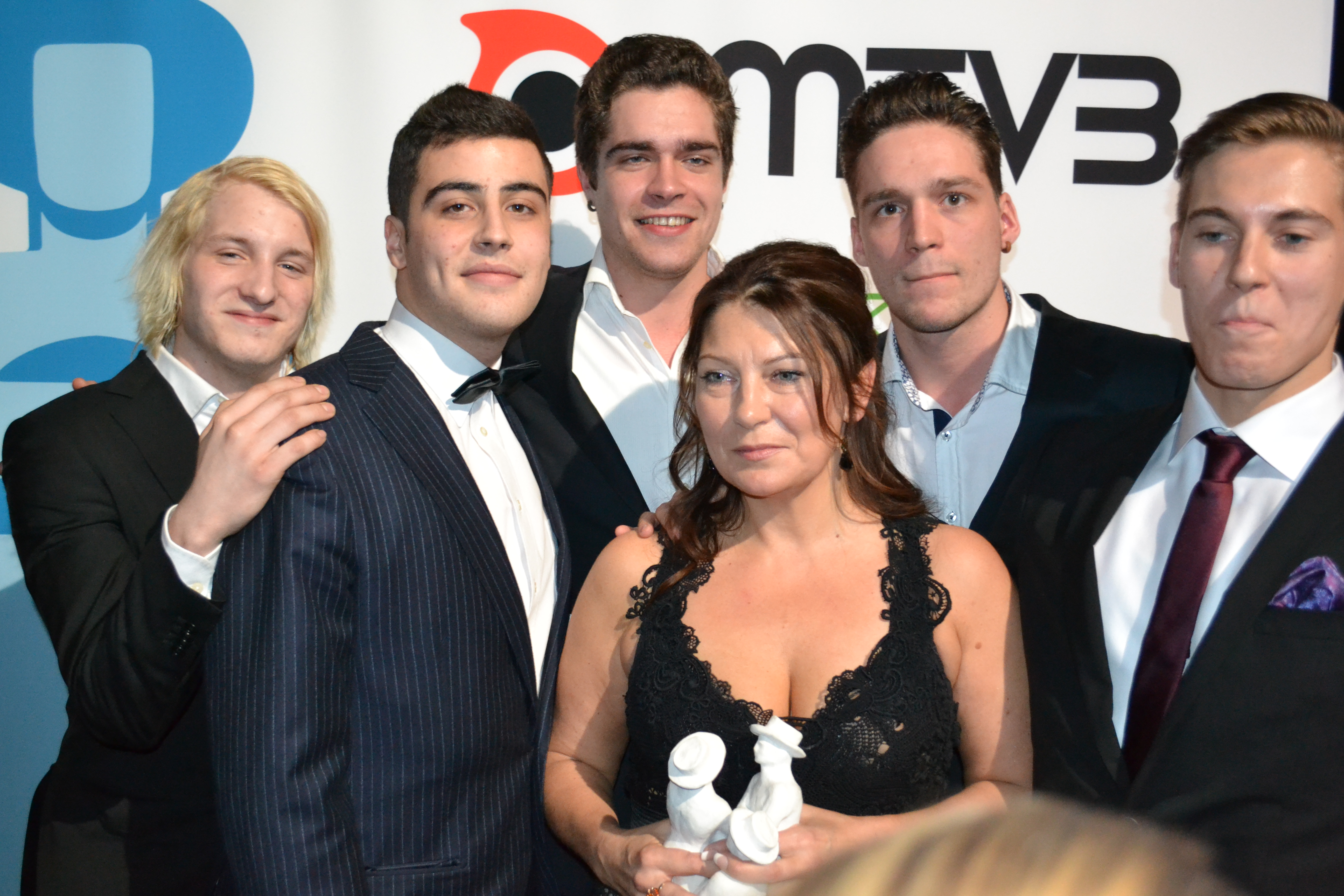 The film "Kohta 18" young actors and their film director Maarit Lalli in 2013 Jussi Award.